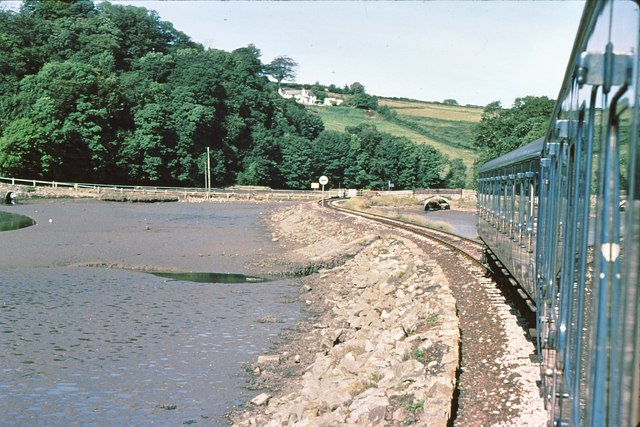 Looe River railway causeway 1979